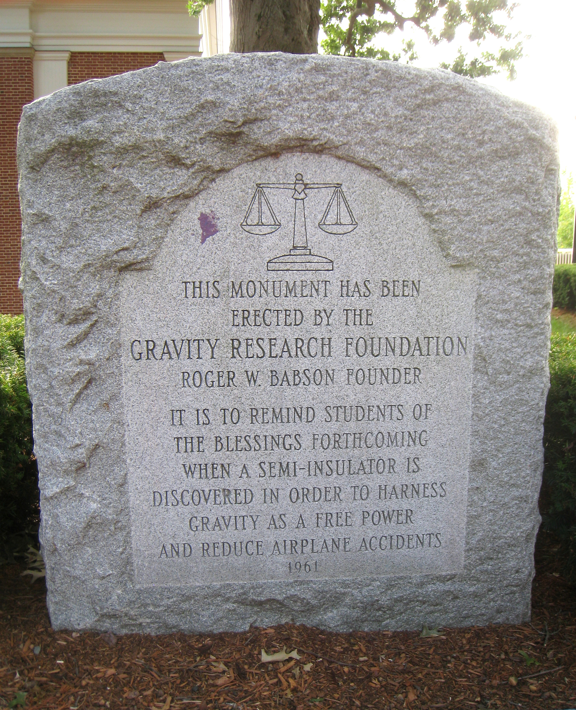 Gravity Research Foundation monument, Tufts University, Medford, Massachusetts, USA.